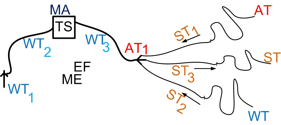 Schematic representation of the tasks in the fire hydrant for water supply service provision